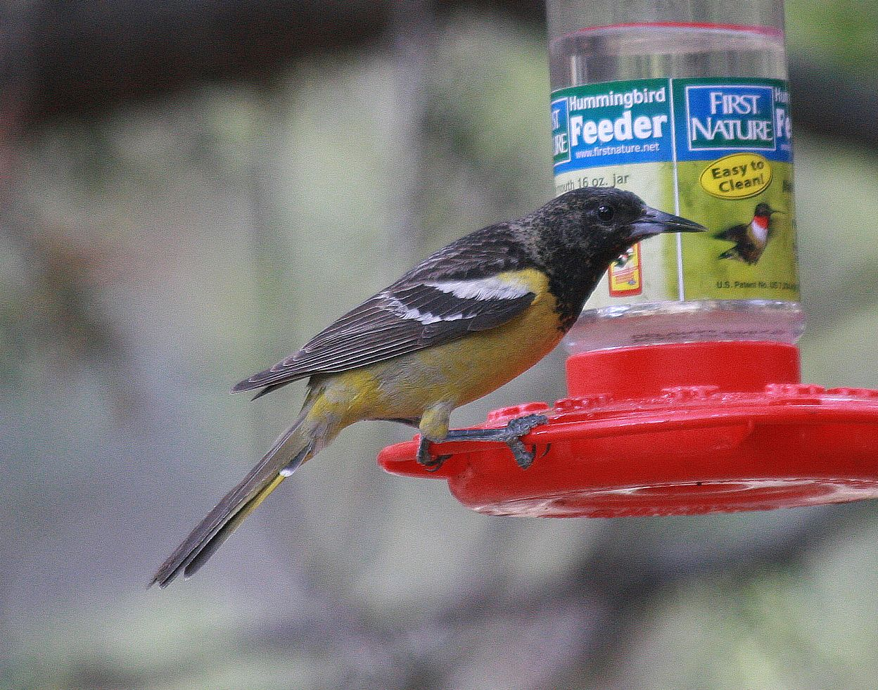 A female Scott's Oriole. Taken in Idlewild Campground, Arizona.